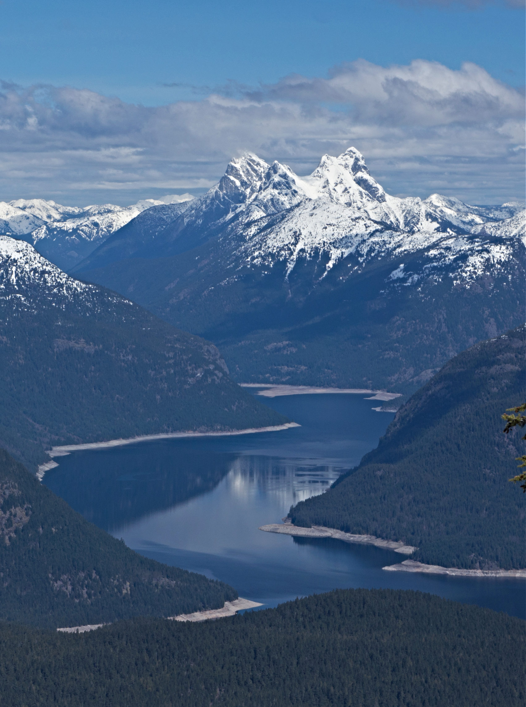 Hozomeen Mountain and Ross Lake seen from Ruby Mountain. North Cascades of WA